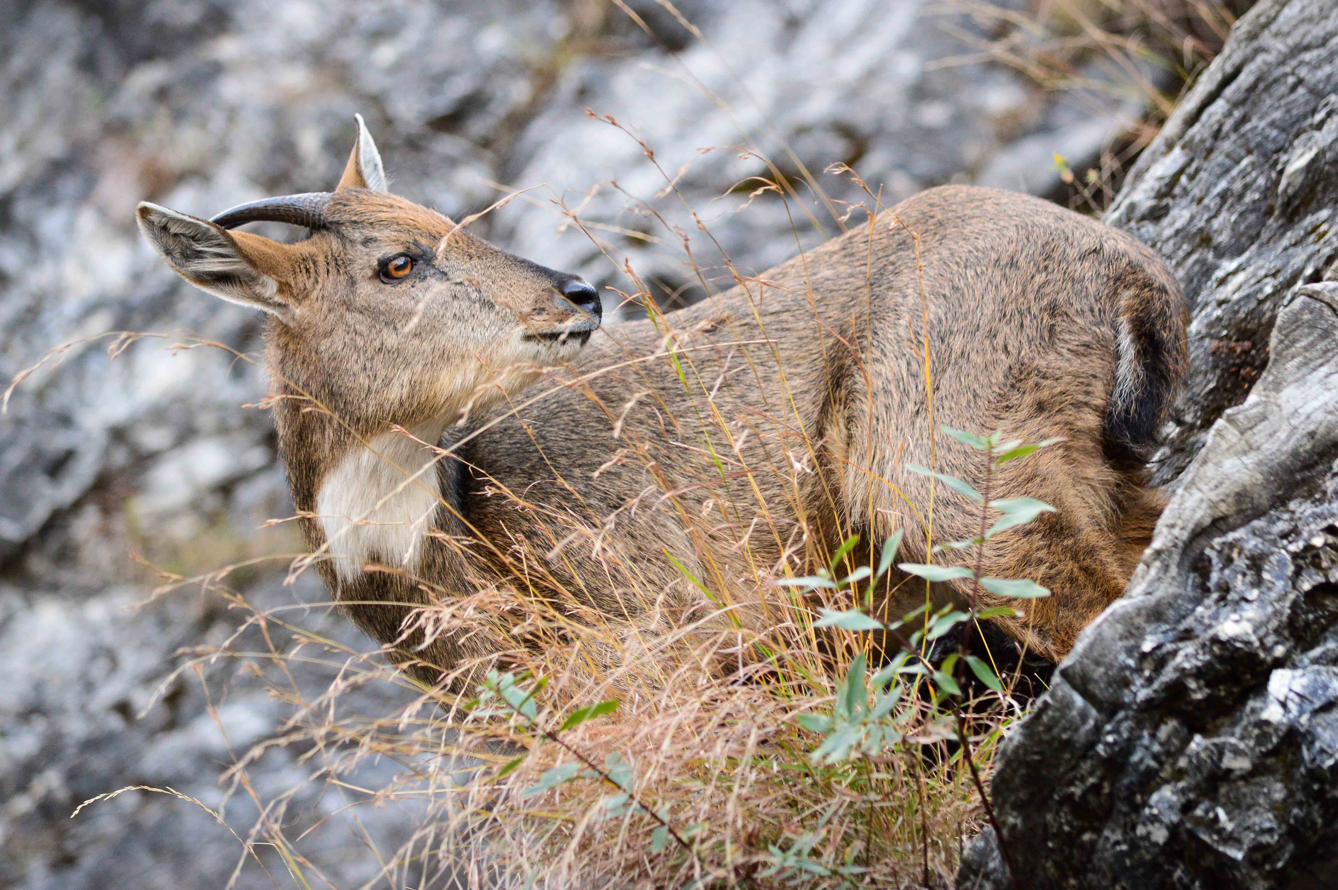 Himalayan Goral was cleaning itself. It was standing on steep slope it. It's climbing skills are extraordinary.